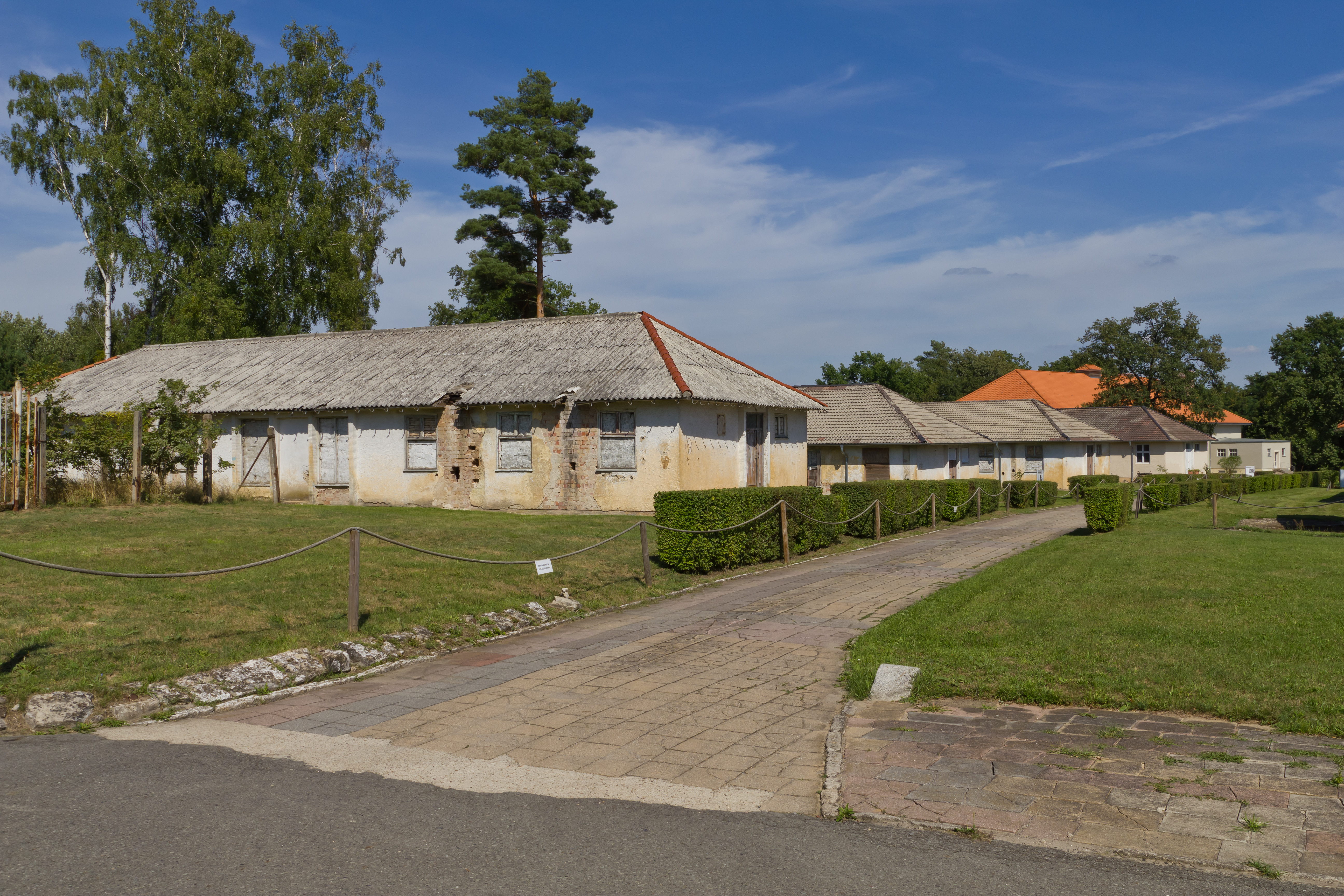 Former residential houses for sportspeople in the Berlin Olympic Village (built for the 1936 games) near Berlin, Germany